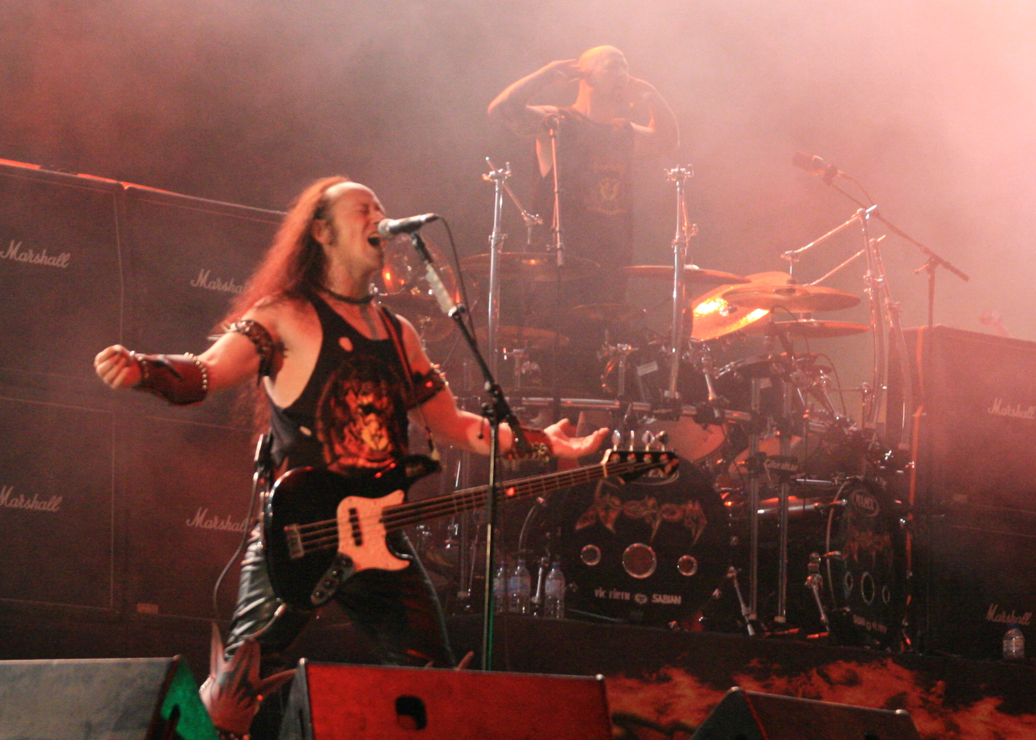 Venom playing at Hellfest in 2008.